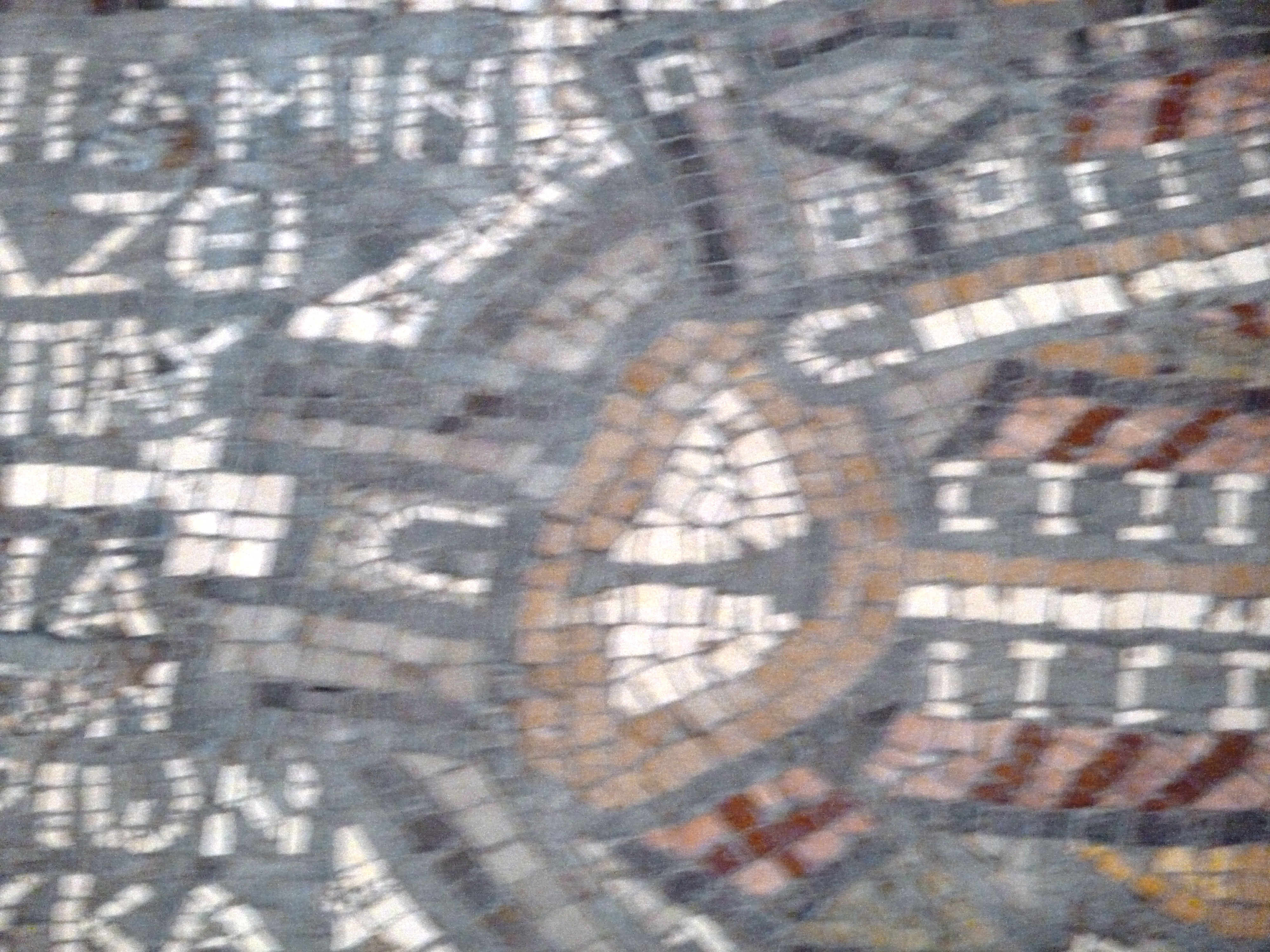 Byzantine floor mosaic map at St. George Church, Madaba, Jordan